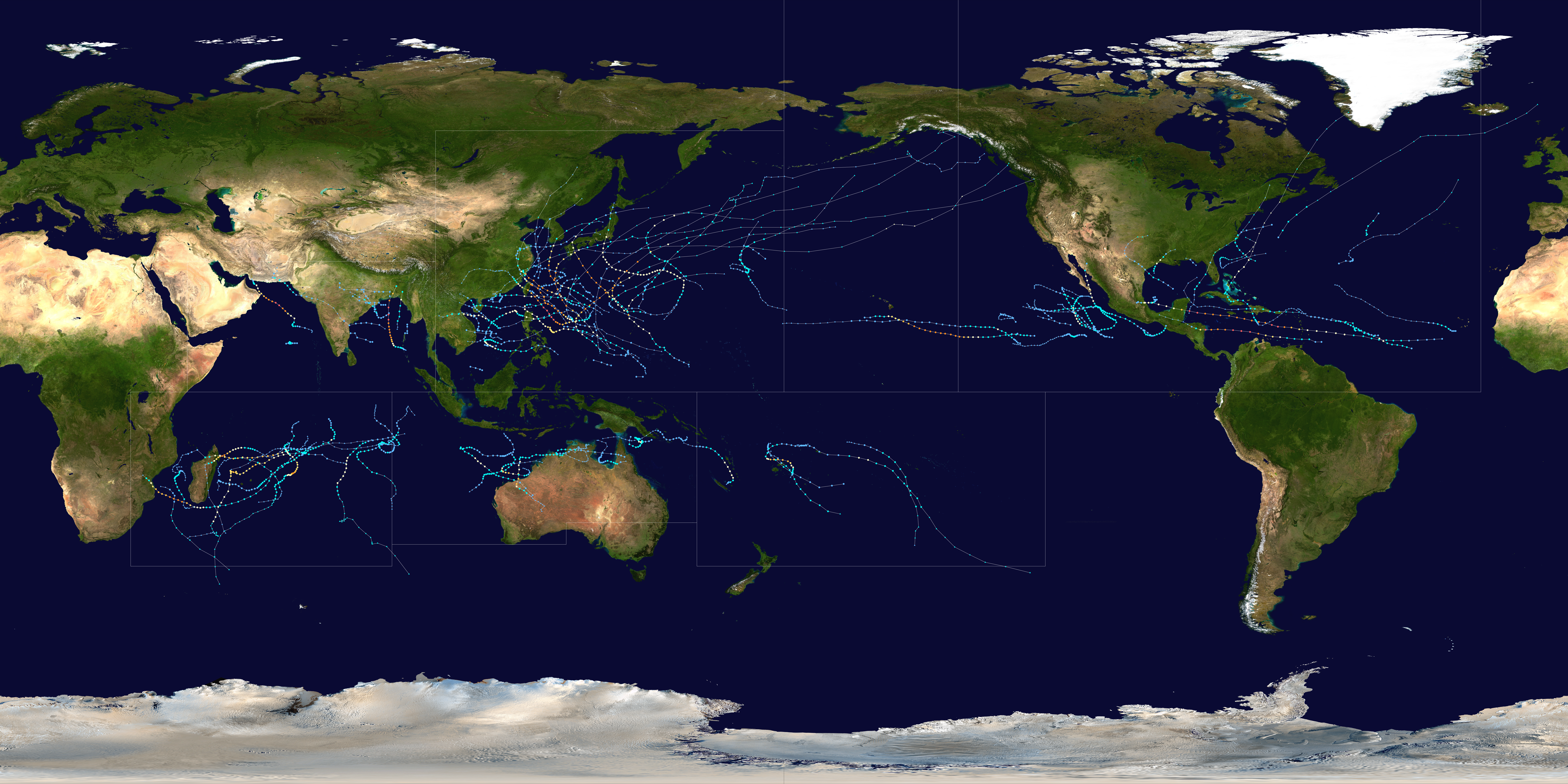 Tropical cyclones worldwide in 2007